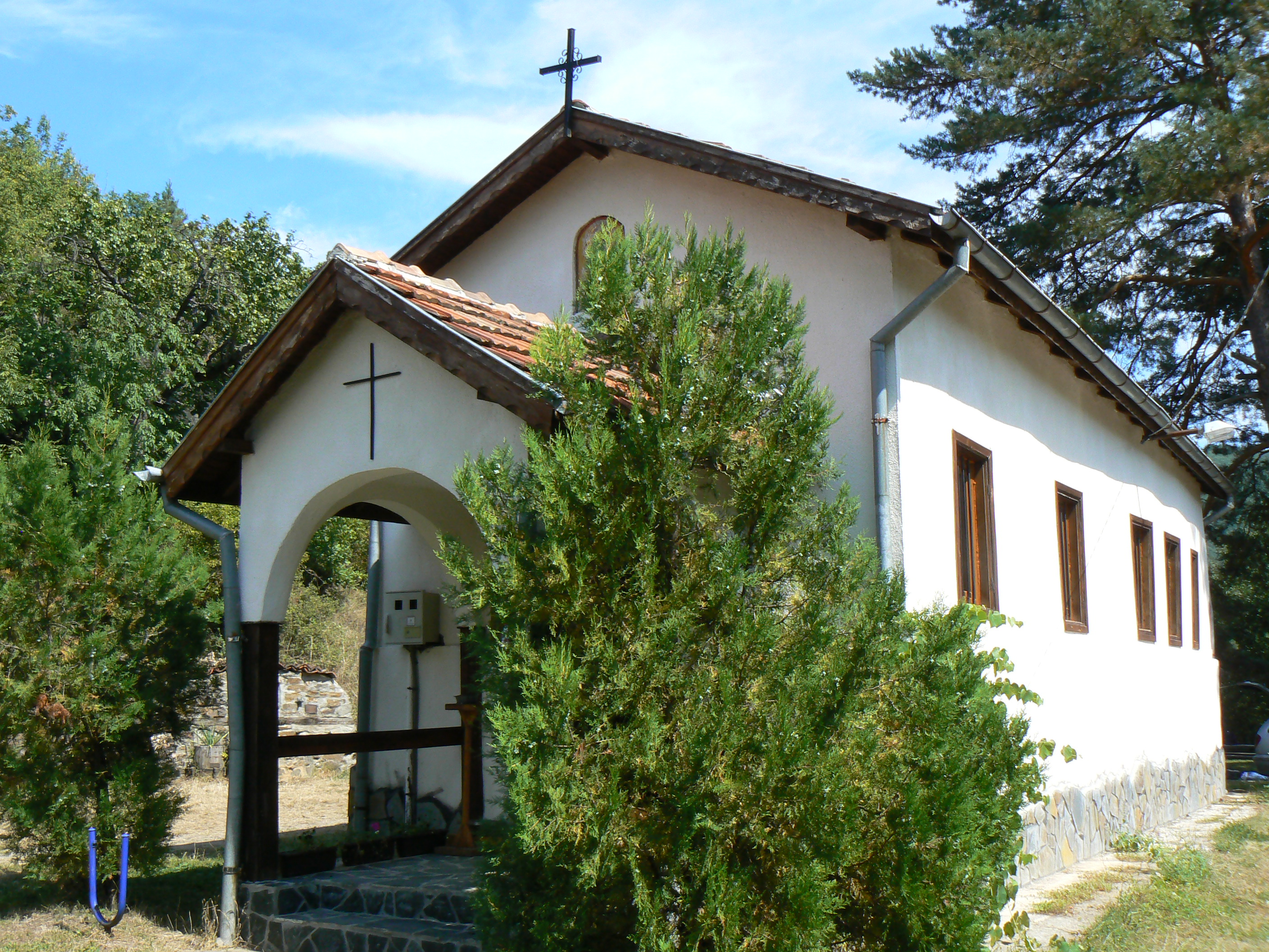 The church of the Batulia Monastery, Bulgaria